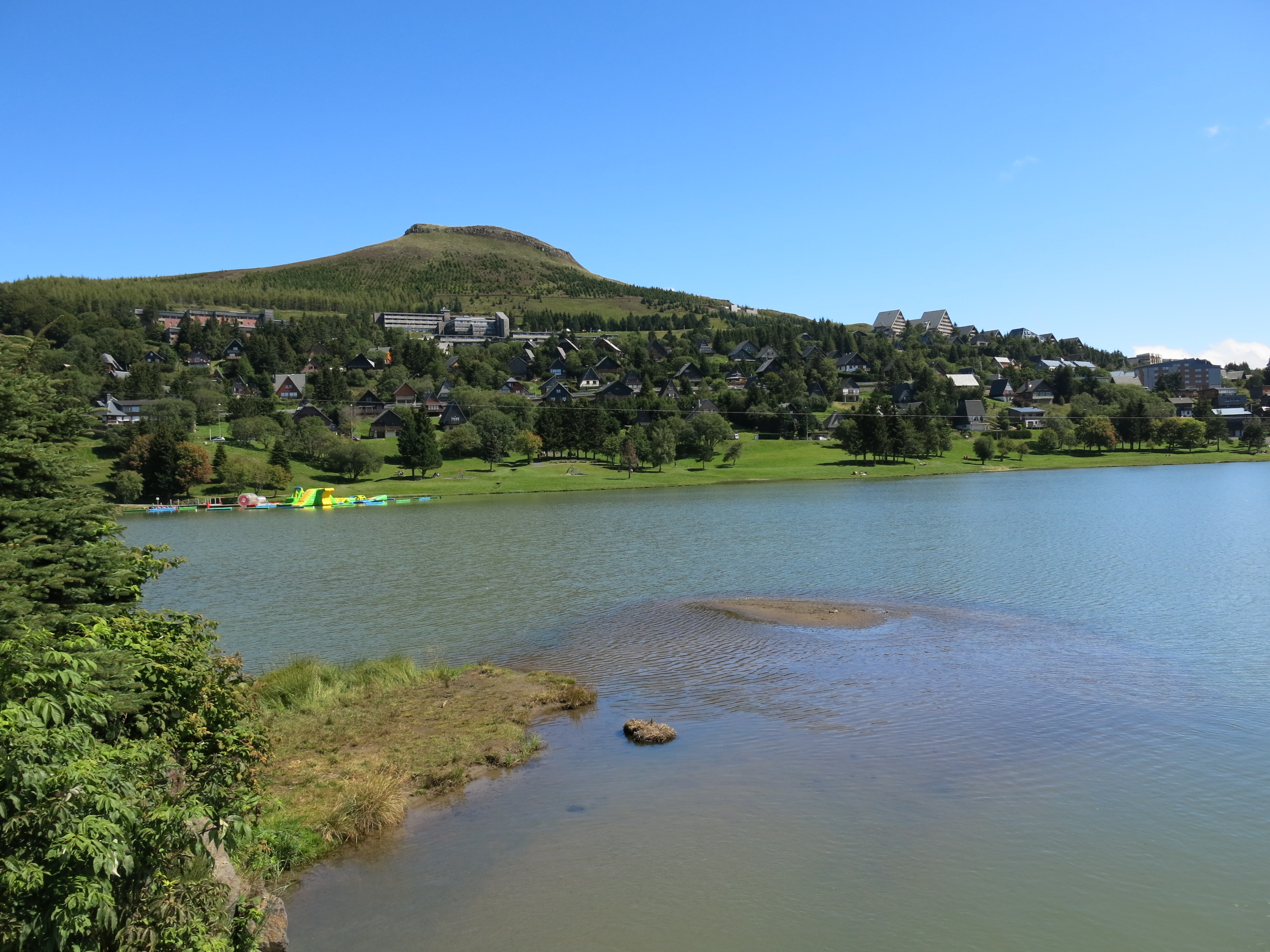 Lac des Hermines in Super-Besse (Puy-de-Dôme, France).